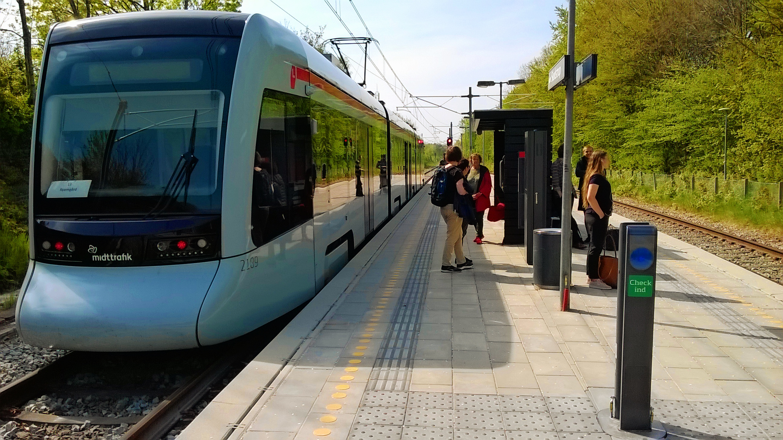 Skødstrup Letbane Station